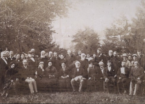 International Abolitionist Federation Conference in Geneva, Switzerland